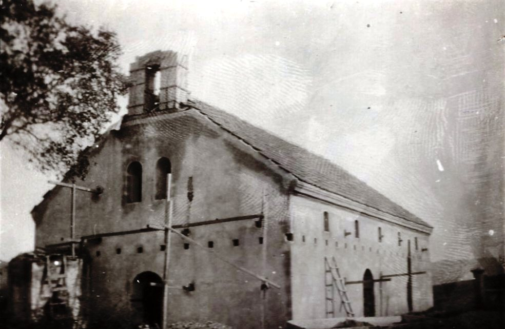 Church in the village Balinci (Valandovo Municipality), 1931 This media file is produced by Wikipedian in Residence in Category:Wikipedian in Residence at DARM in 2016.